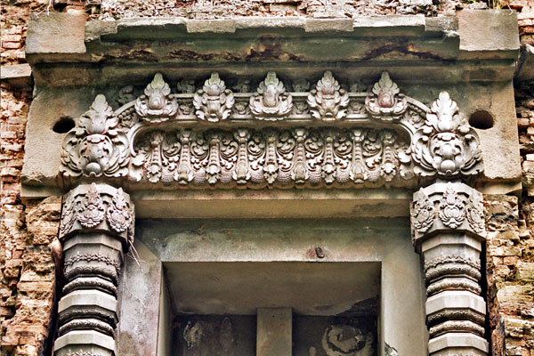 C1 Sanctuary. Sambor Prei Kuk. Cambodia